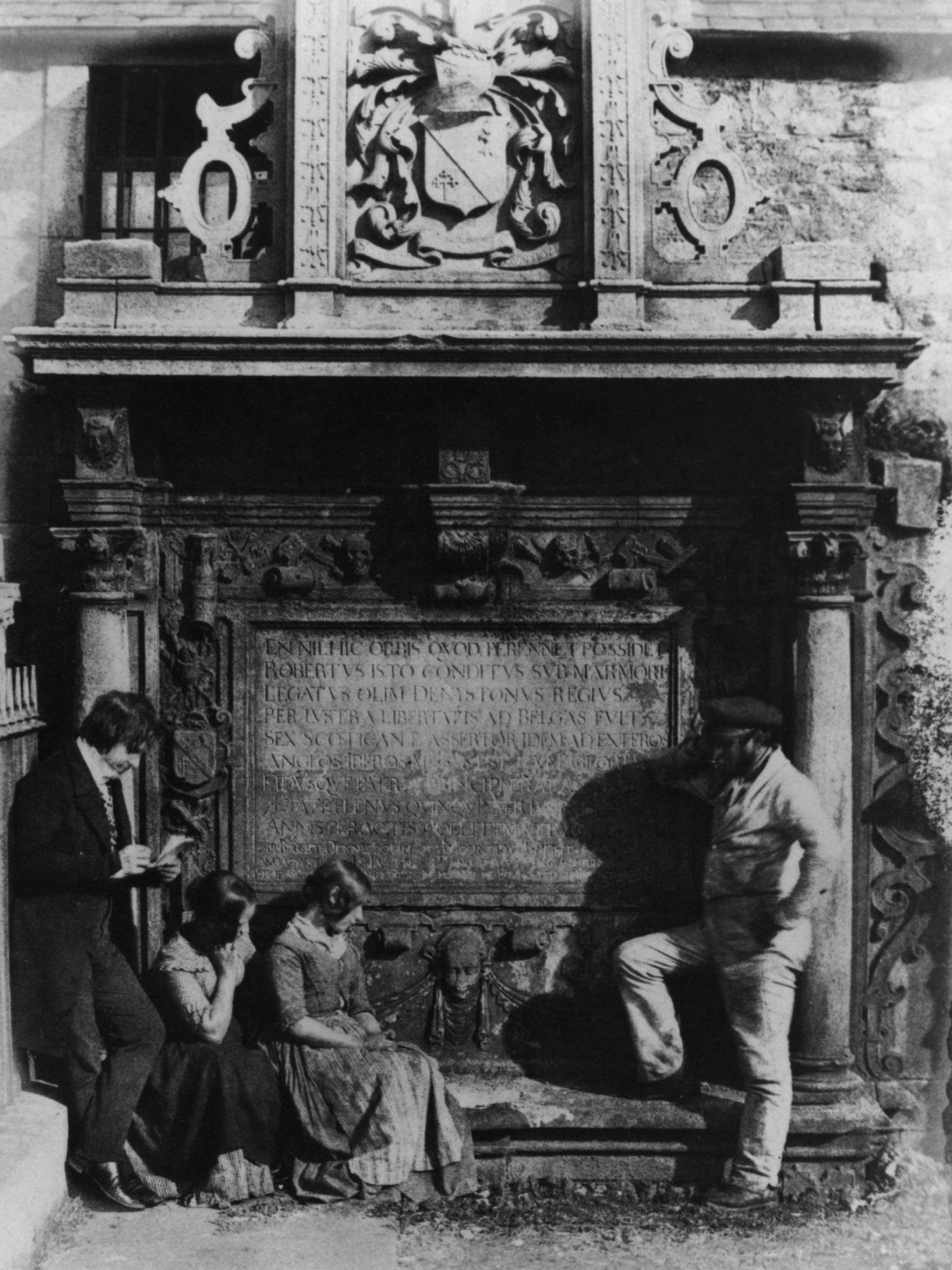 Sir Robert Dennistoun's Tomb, given to the National Portrait Gallery, London in 1973. All images in this batch have been confirmed as author died before 1939 according to the official death date listed by the NPG.